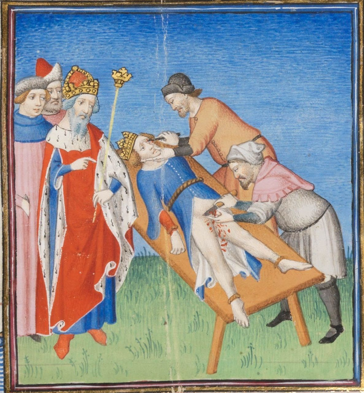 Bibliothèque de Genève Ms. fr. 190/2: Des cas des nobles hommes et femmes by Giovanni Boccaccio fol. 169r - “Henry Hohenstaufen torturing the young William III of Sicily, son of Tancred”